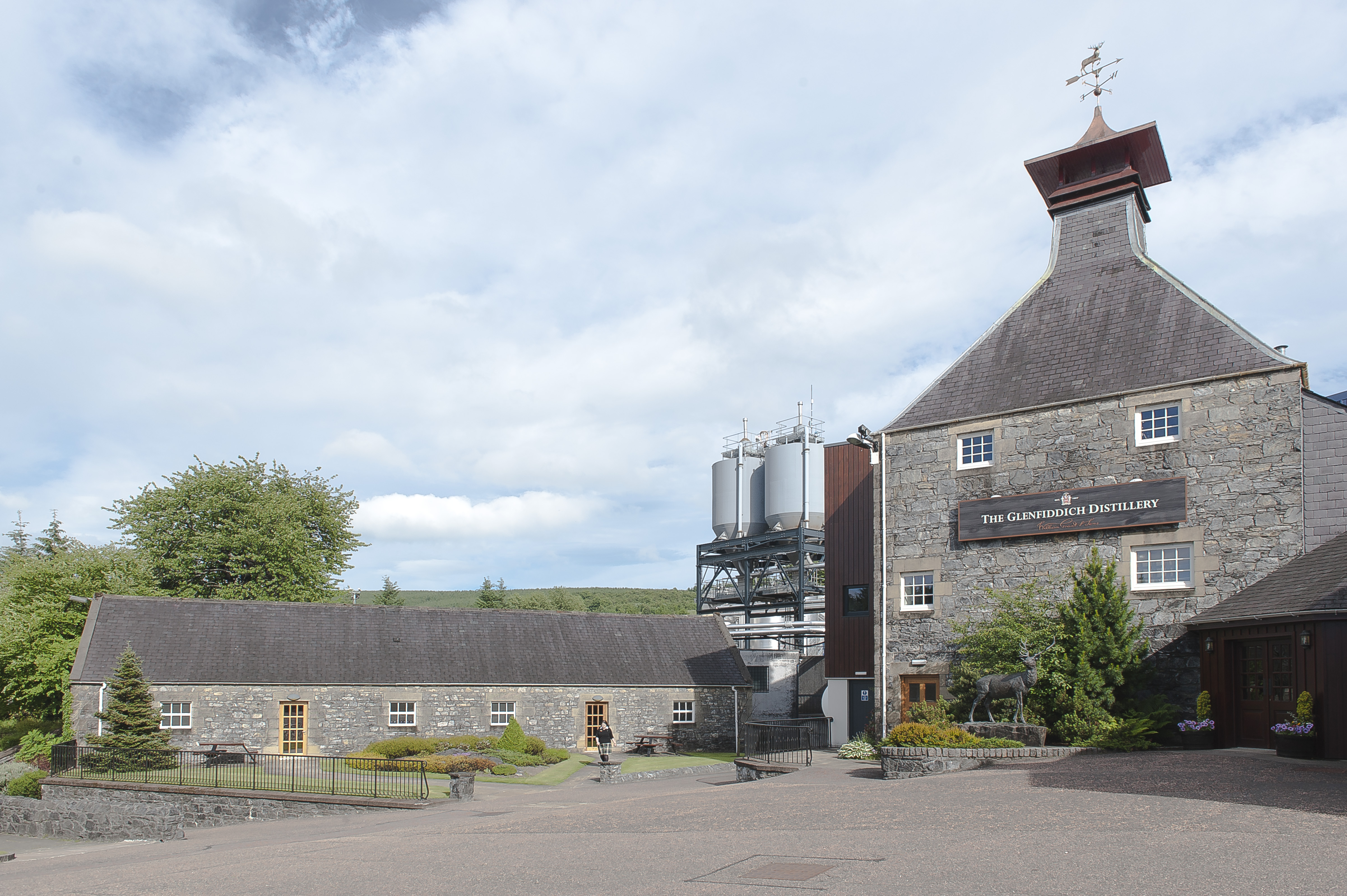 Glenfiddich Distillery, Dufftown, Scotland